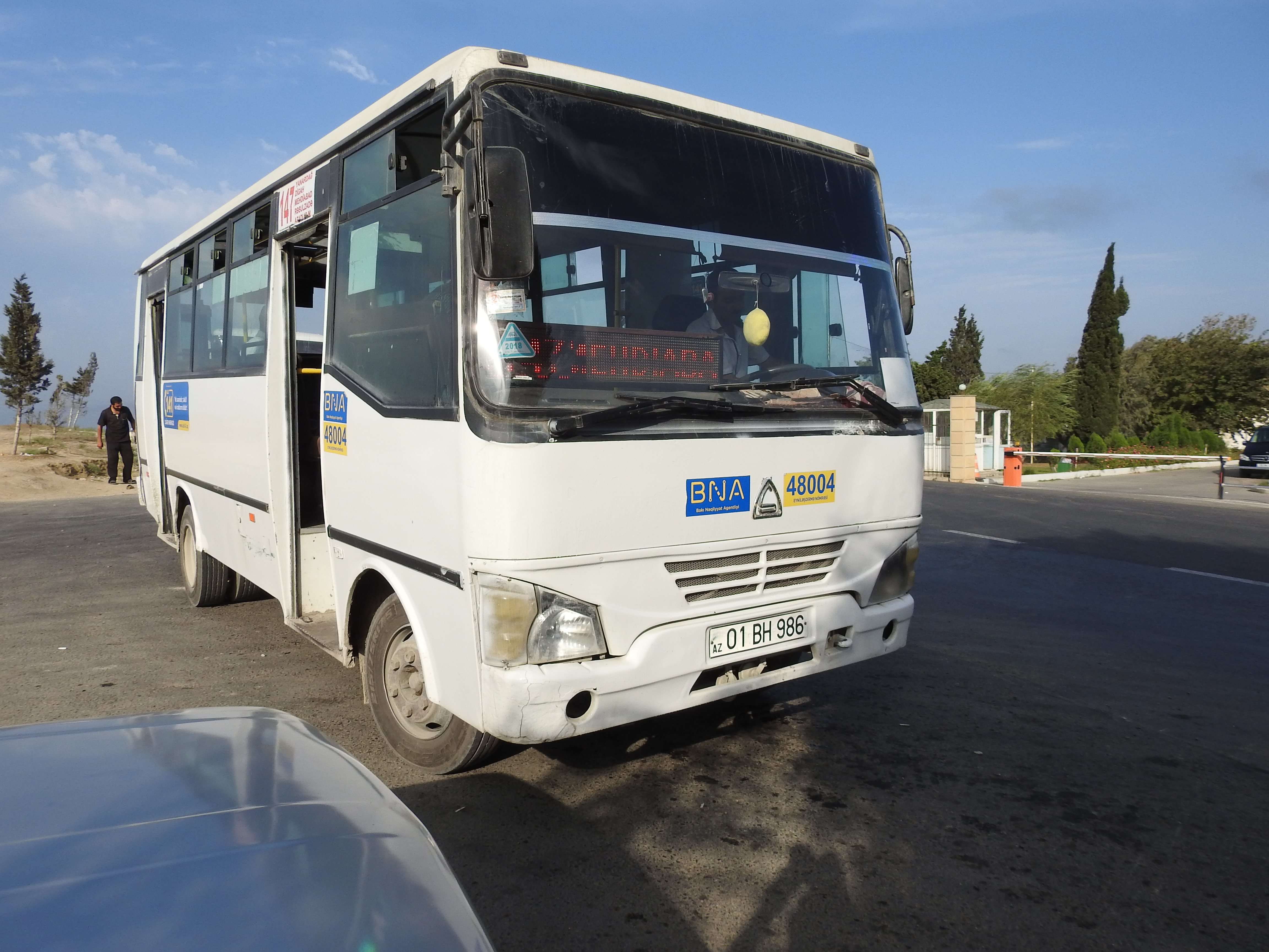 Our final stop for that day was the Yanar Dagh or fire mountain, where a bit of the mountainside has been permanently aflame for several centuries due to subterranean gas reserves. That site is just across the road but here, part of the parking lot also serves as a bus terminus for local buses coming here all the way from Baku. I had read several demeaning reports about buses being ancient Soviet era vehicles etc. but this one was not all the bad. I may be Soviet built, but it was fairly modern, complete with LED destination signs. A bus which had left just before this was Isuze- I even saw an India built Ashok Leyland among them! There was hardly any partonage though, most people had come with their own cars or pre-arranged taxis so this bus and a couple of taxis nearby were really vying for customers. (Gobustan, Azerbaijan, Sept. 2017)